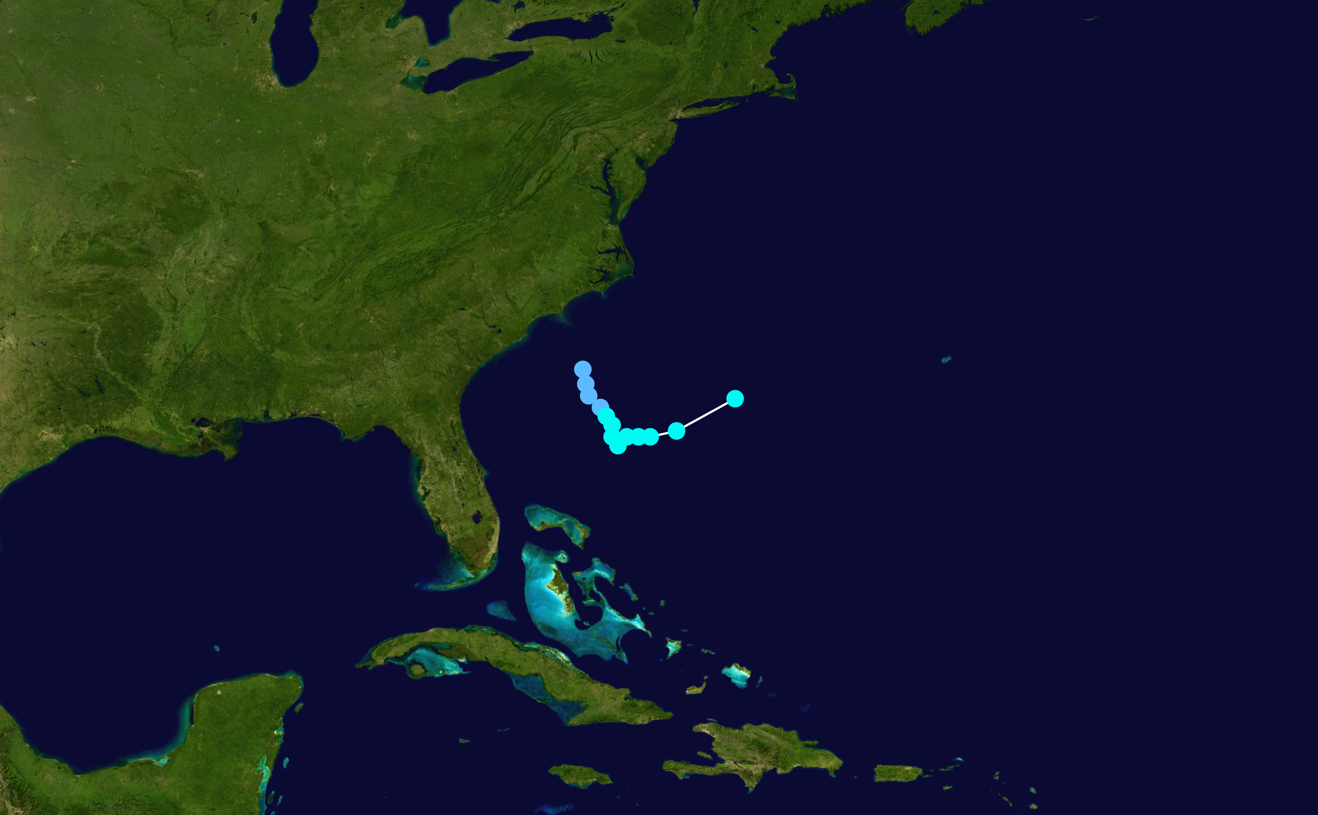 Track map of Tropical Storm Cristobal of the 2002 Atlantic hurricane season. The points show the location of the storm at 6-hour intervals. The colour represents the storm's maximum sustained wind speeds as classified in the Saffir–Simpson scale (see below), and the shape of the data points represent the nature of the storm, according to the legend below. Saffir–Simpson scale Tropical depression≤38 mph≤62 km/h Category 3111–129 mph178–208 km/h Tropical storm39–73 mph63–118 km/h Category 4130–156 mph209–251 km/h Category 174–95 mph119–153 km/h Category 5≥157 mph≥252 km/h Category 296–110 mph154–177 km/h Unknown Storm type Tropical cyclone Subtropical cyclone Extratropical cyclone / Remnant low / Tropical disturbance / Monsoon depression